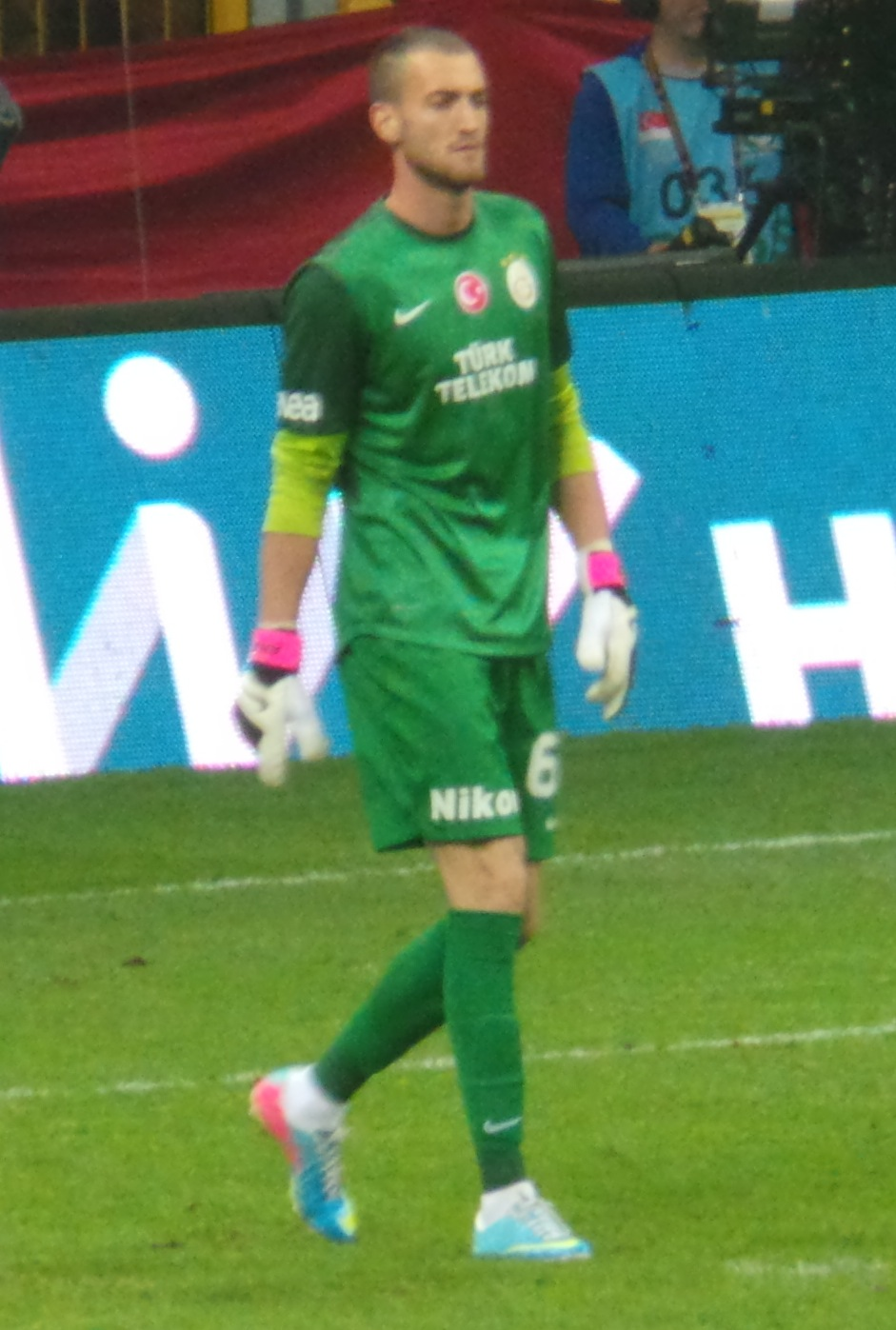 Eray Galatasaray formasıyla